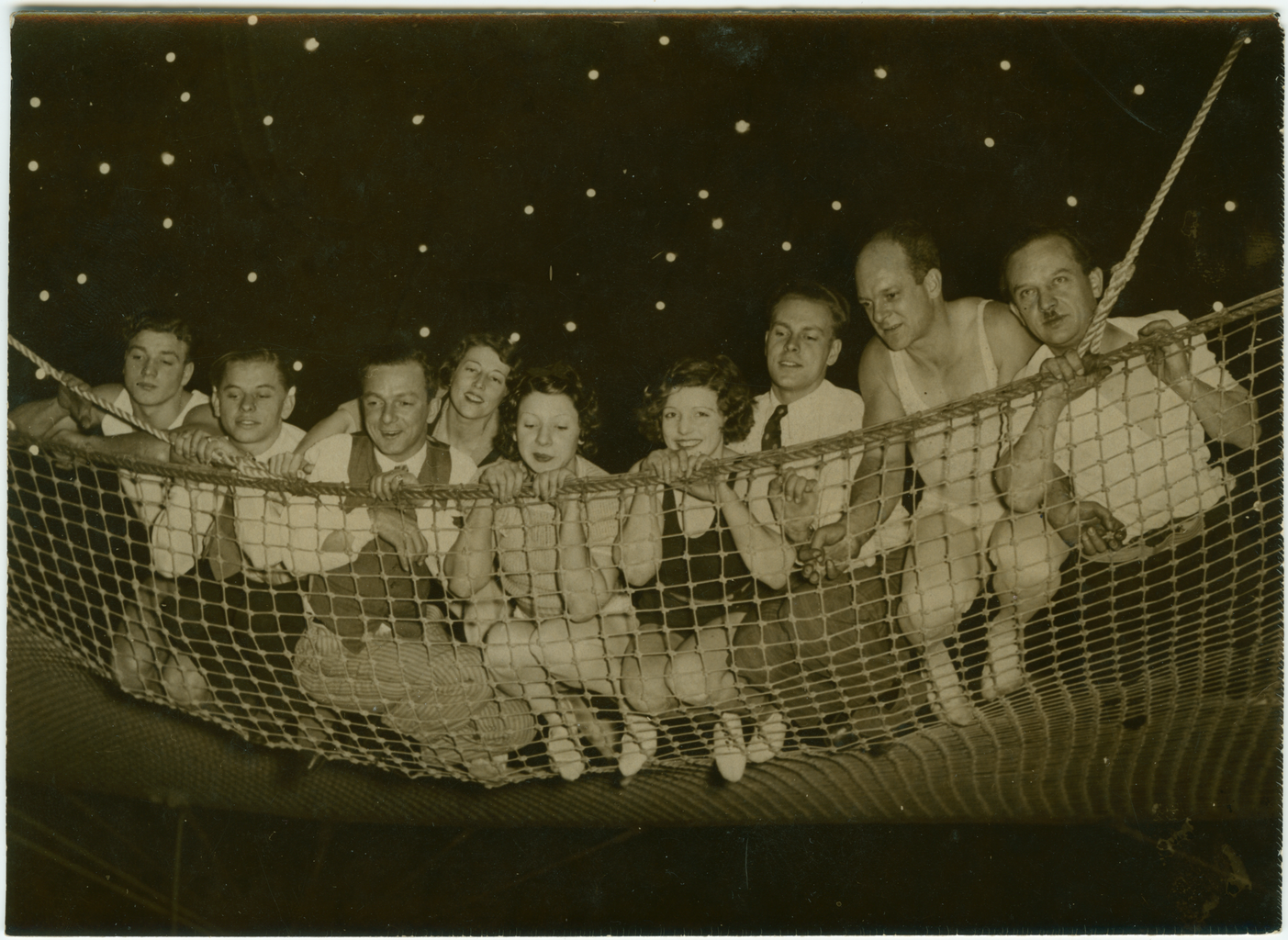 This December 1932 photograph shows the members of three world-famous trapeze acts posing in the safety net at La Scala in Berlin: The Flying Codonas of Mexico, The Flying Concellos of the United States, and Les Amadori of Italy. Shown from left to right are Genesio Amadori (Les Amadori), Art Concello (The Flying Concellos), Alfredo Codona (The Flying Codonas), Vera (Bruce) Codona (The Flying Codonas), Antoinette Concello (The Flying Concellos), Ginevra Amadori (Les Amadori), Everett White (The Flying Concellos), Lalo Codona (The Flying Codonas), and Goffreddo Amadori (Les Amadori). The photograph reflects the internationalization of the circus in the 20th century, as famous artists and troupes were hired by circuses in other countries looking to present never-before-seen acts to their audiences. The flying trapeze was developed in the mid-19th century by Jules Léotard (1842–70), a French acrobatic performer at the Cirque Napoléon in Paris. By the 1930s, two- and three-person troupes had devised increasingly dangerous and demanding trapeze acts, including the famous triple somersault. Aerialists; Circus; Circus performers; Entertainers